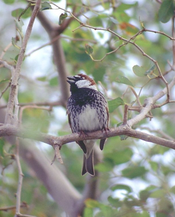 Spanish Sparrow in Israel